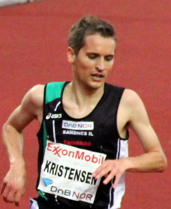 Bjørnar Ustad Kristensen at the 2011 Bislett Games